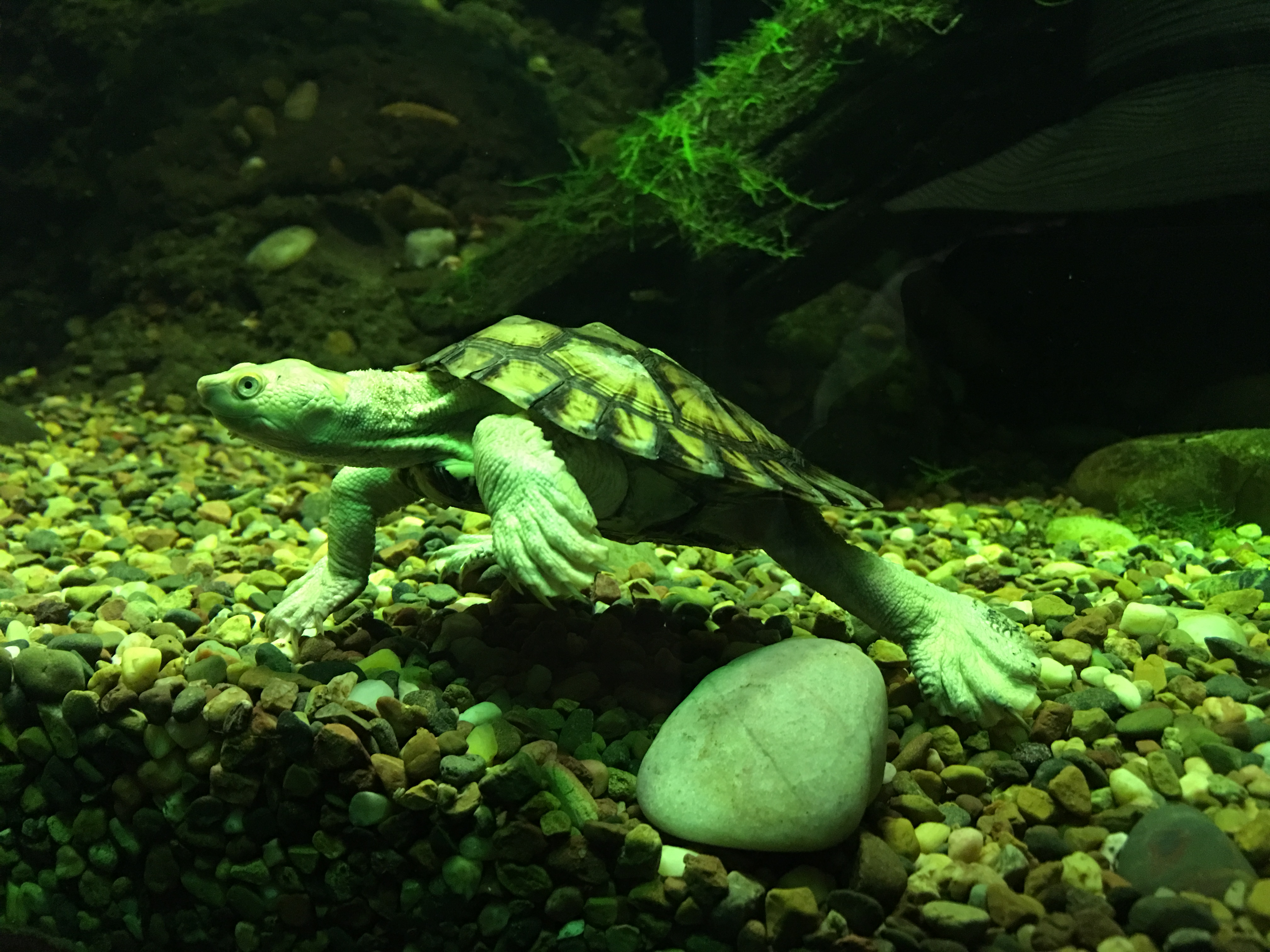 Bellinger River turtle (Myuchelys georgesi) in an aquarium at Taronga Zoo Sydney. Side view, underwater. Photograph has a colour cast due to the artificial lighting and filtering effect of the water.